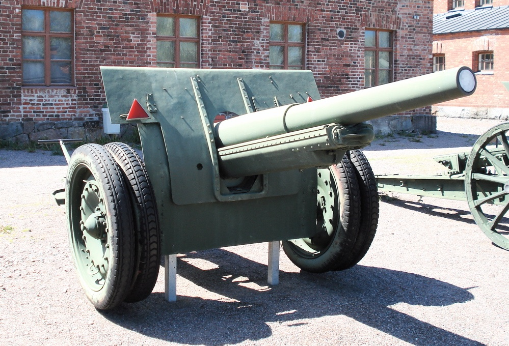 French 105 mm M1913 Schneider gun, displayed in Hämeenlinna Artillery Museum. The barrel of this particular gun was manufactured in 1918 and the gun carriage in 1916. The rubber tires were added in the 1940s or after, when the gun was in Finnish service.